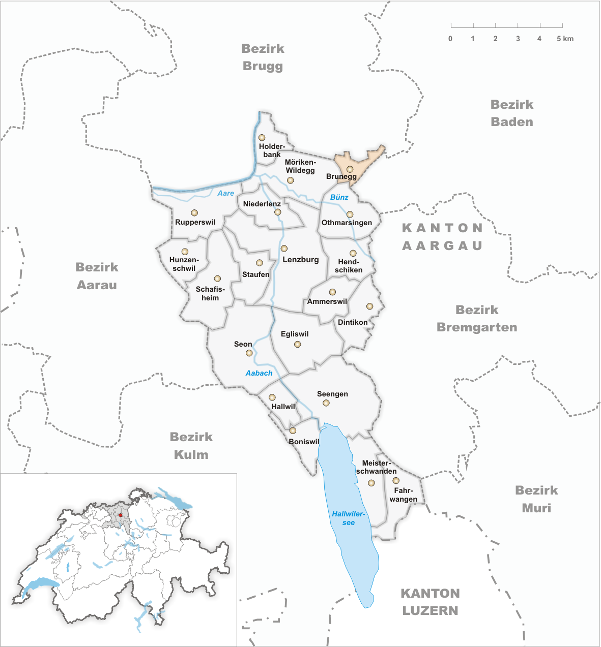 Municipality Brunegg